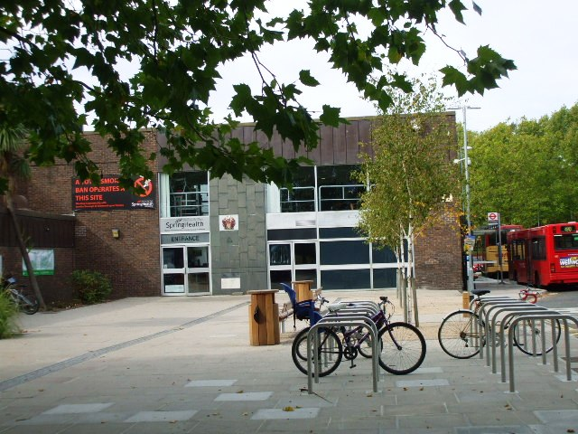 Pools in the Park, Richmond The proper name for Richmond swimming pool opened in 1966.